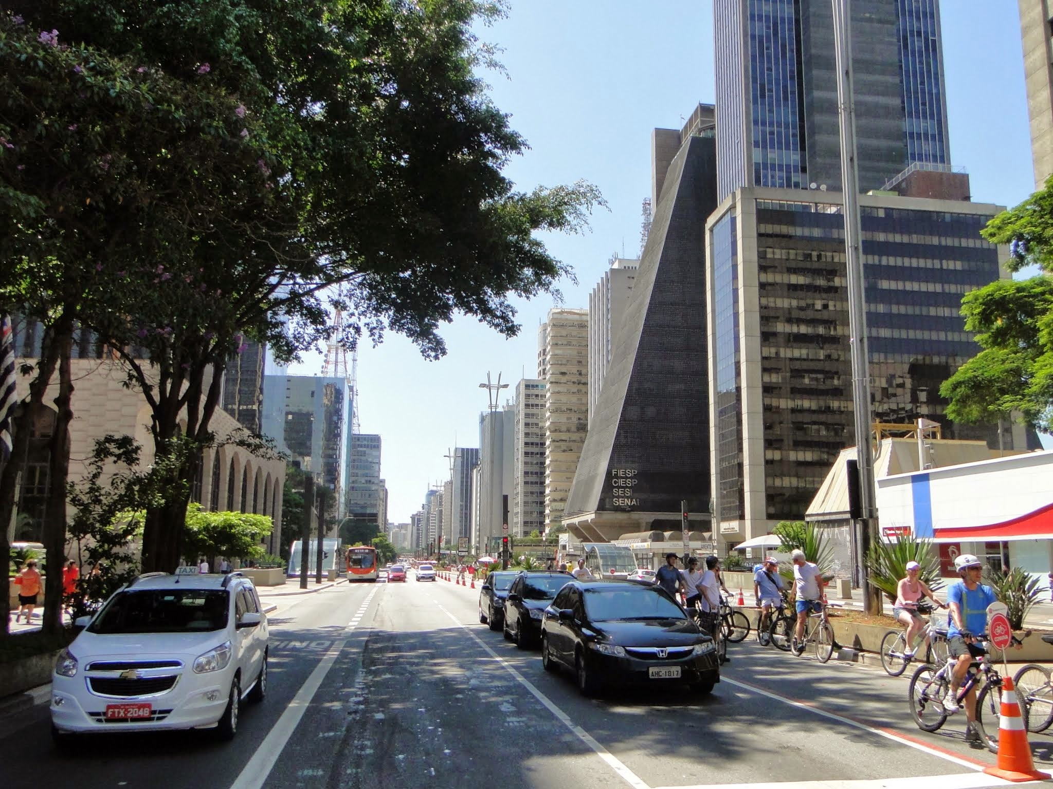 Paulista avenue